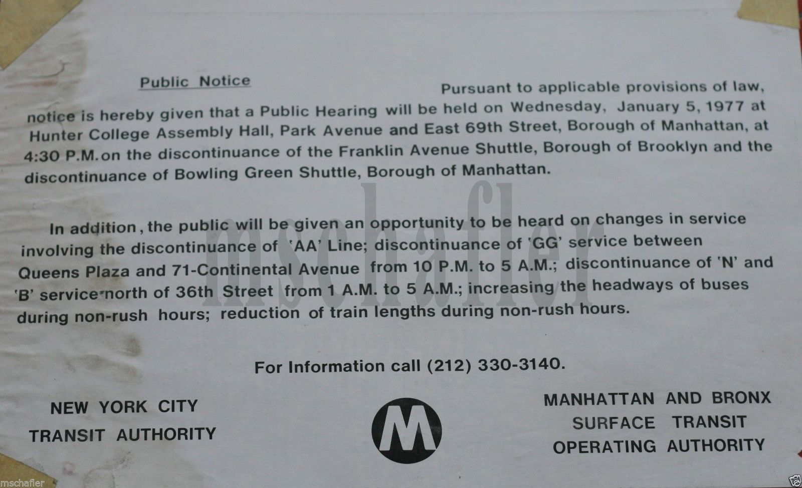 This poster was put up in subway stations to inform riders about the holding of a public hearing required by law so the New York City Transit Authority could cut subway service.